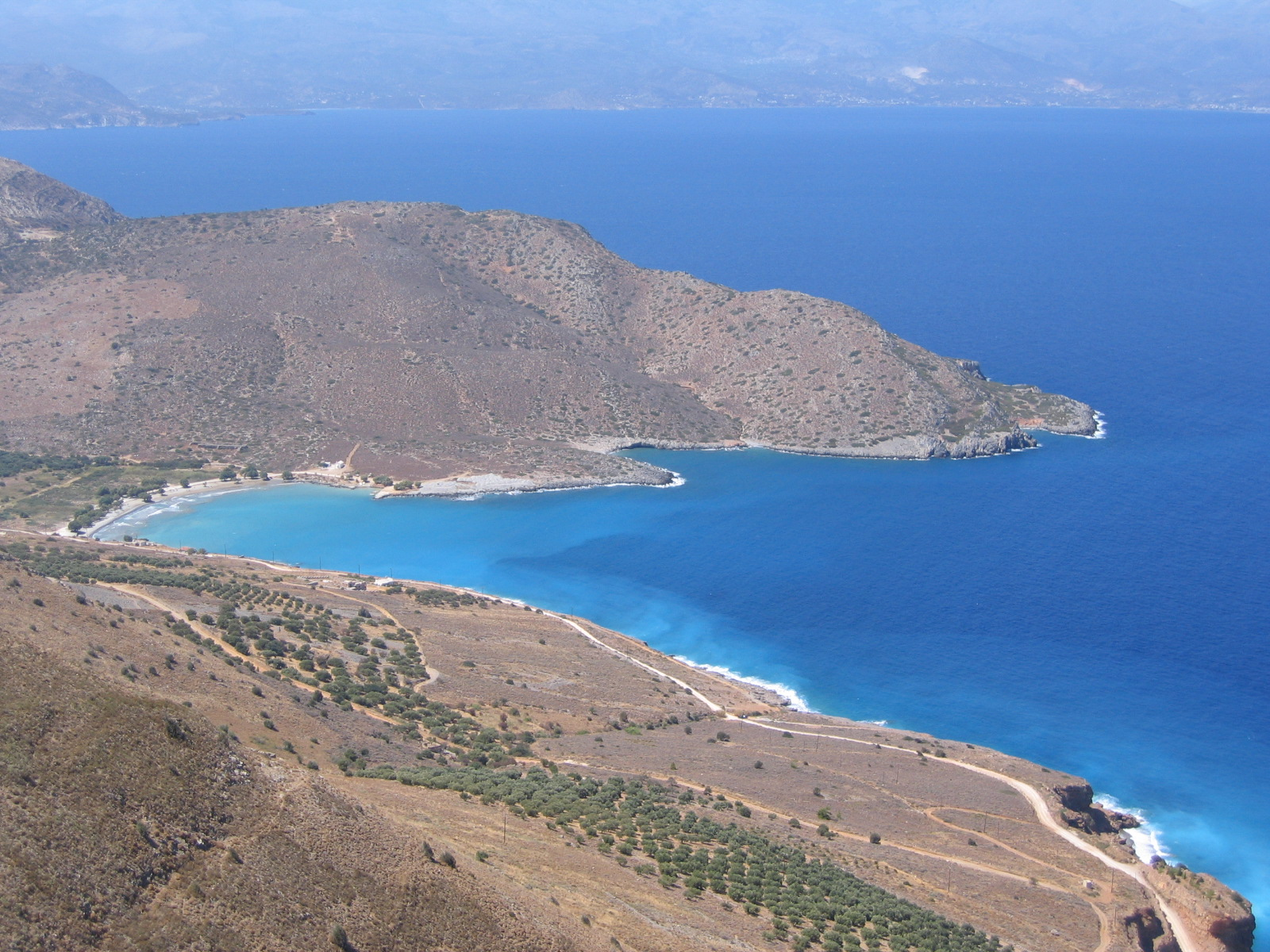 Northern coastline (Gulf of Mirabella) near to Platanos in the eastern part of Crete